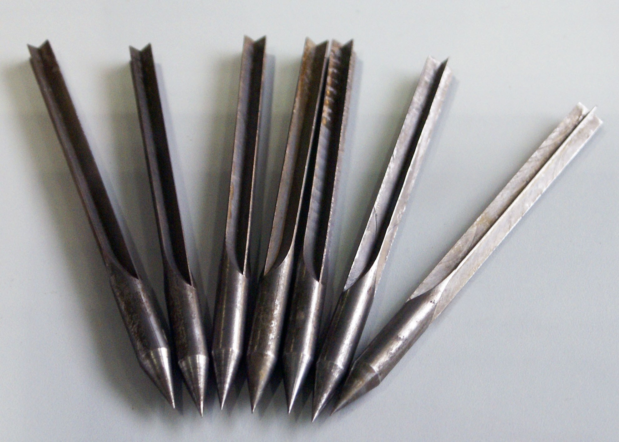 Flechettes (airdropped kinetic weapons) of the Swiss Army Air Corps, procured 1915. Length ca. 10 cm.